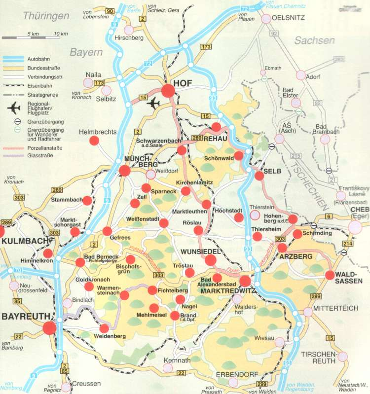 Map of main towns and villages in the Fichtelgebirge mountain range in Bavaria, Germany